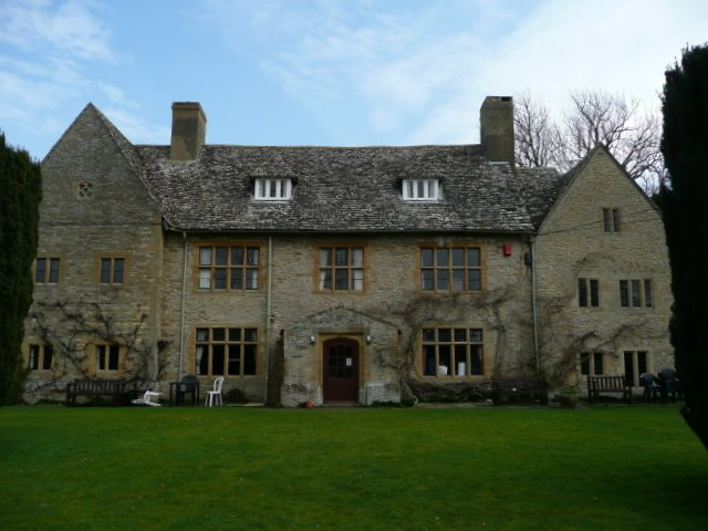 Charney Manor Taken during a Primary Geography Conference. This is a wonderful place run by fantastic people.